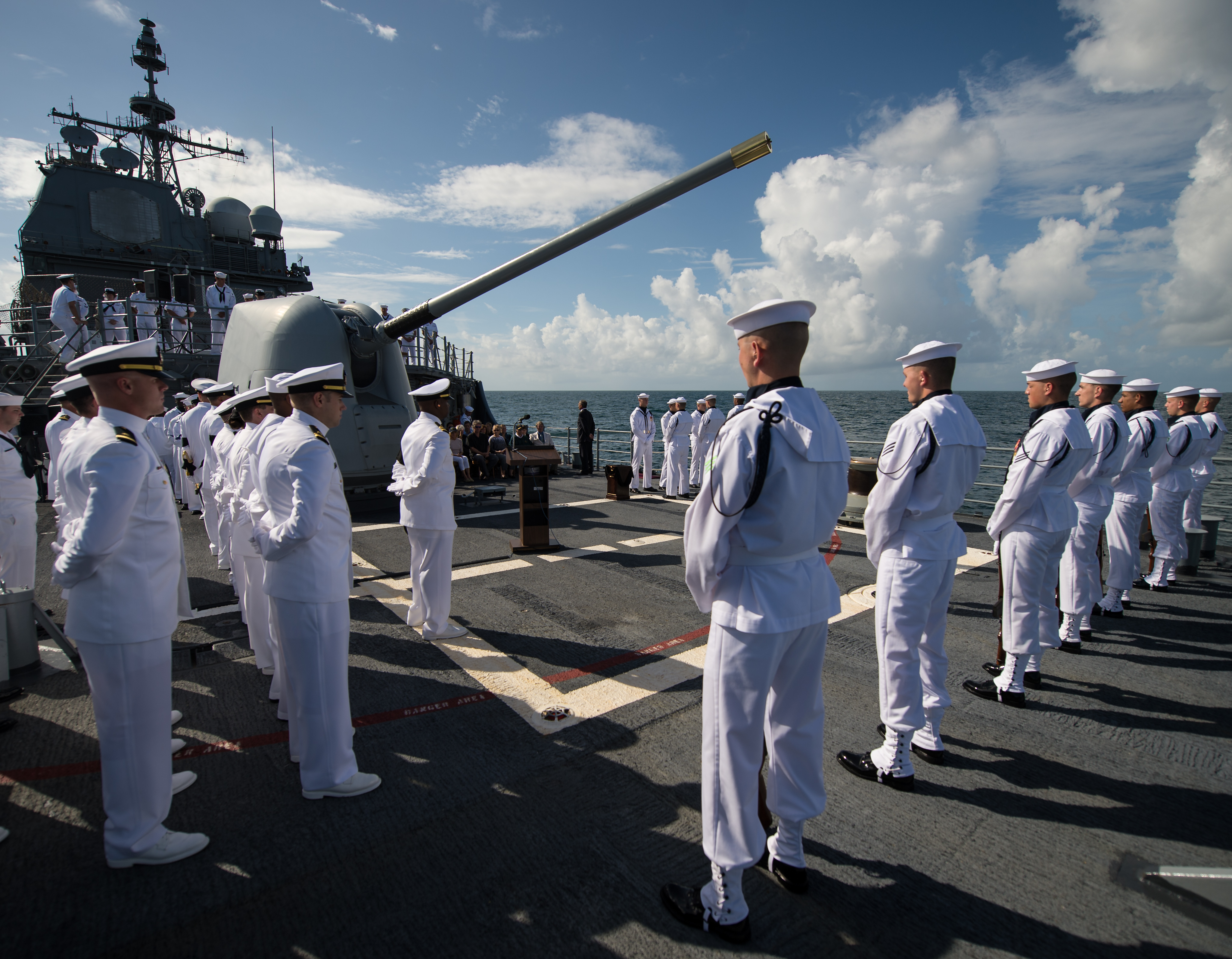 Members of the United States Navy prepare for the burial at sea service for Neil Armstrong on board the USS Philippine Sea (CG 58), on Friday, 14 September 2012, in the Atlantic Ocean, off the coast of Florida. Armstrong, the first man to walk on the moon during the Apollo 11 mission in 1969, died aged 82 on Saturday, 25 August.